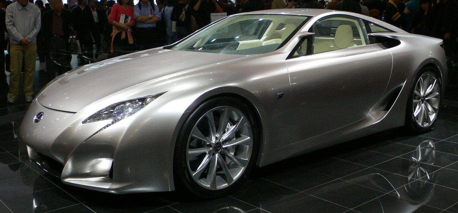 Lexus_LF-A (2007) photographed in Tokyo Motor Show 2007